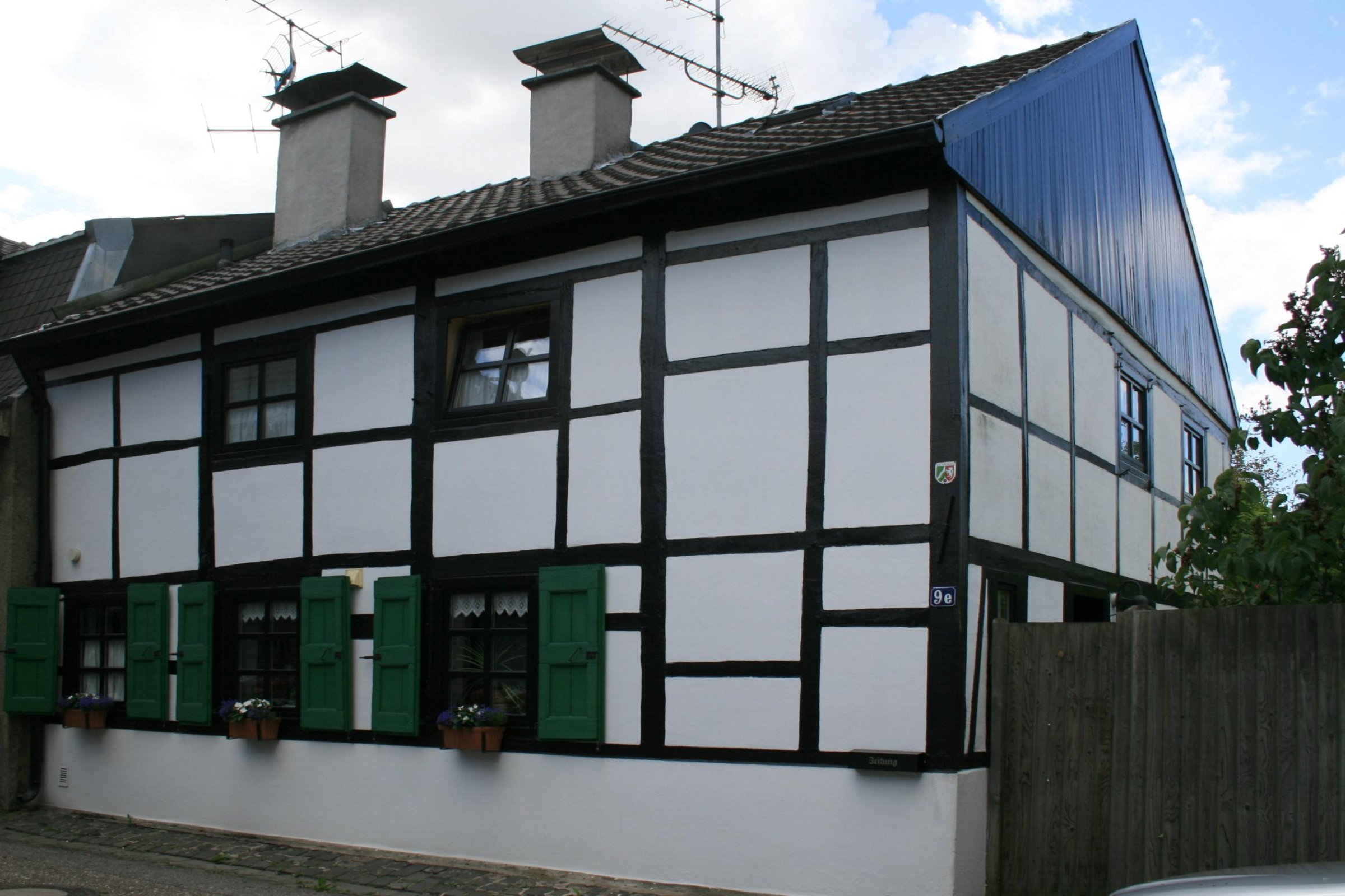 Cultural heritage monument No. A 005 in Mönchengladbach